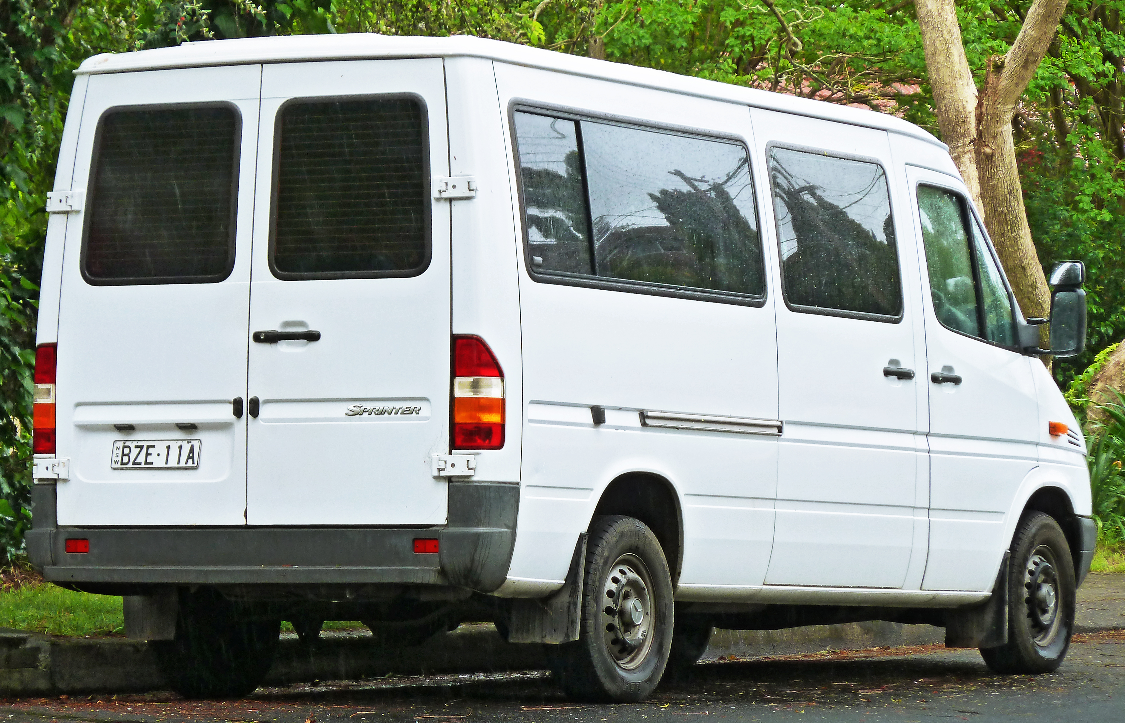 2003 Mercedes-Benz Sprinter (W 903) 316 CDI SWB van. Photographed in Roseville, New South Wales, Australia.